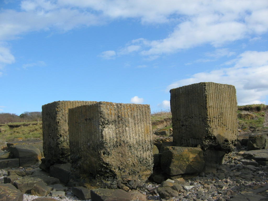 Longniddry Bents, WWII tank traps, East Lothian, Scotland